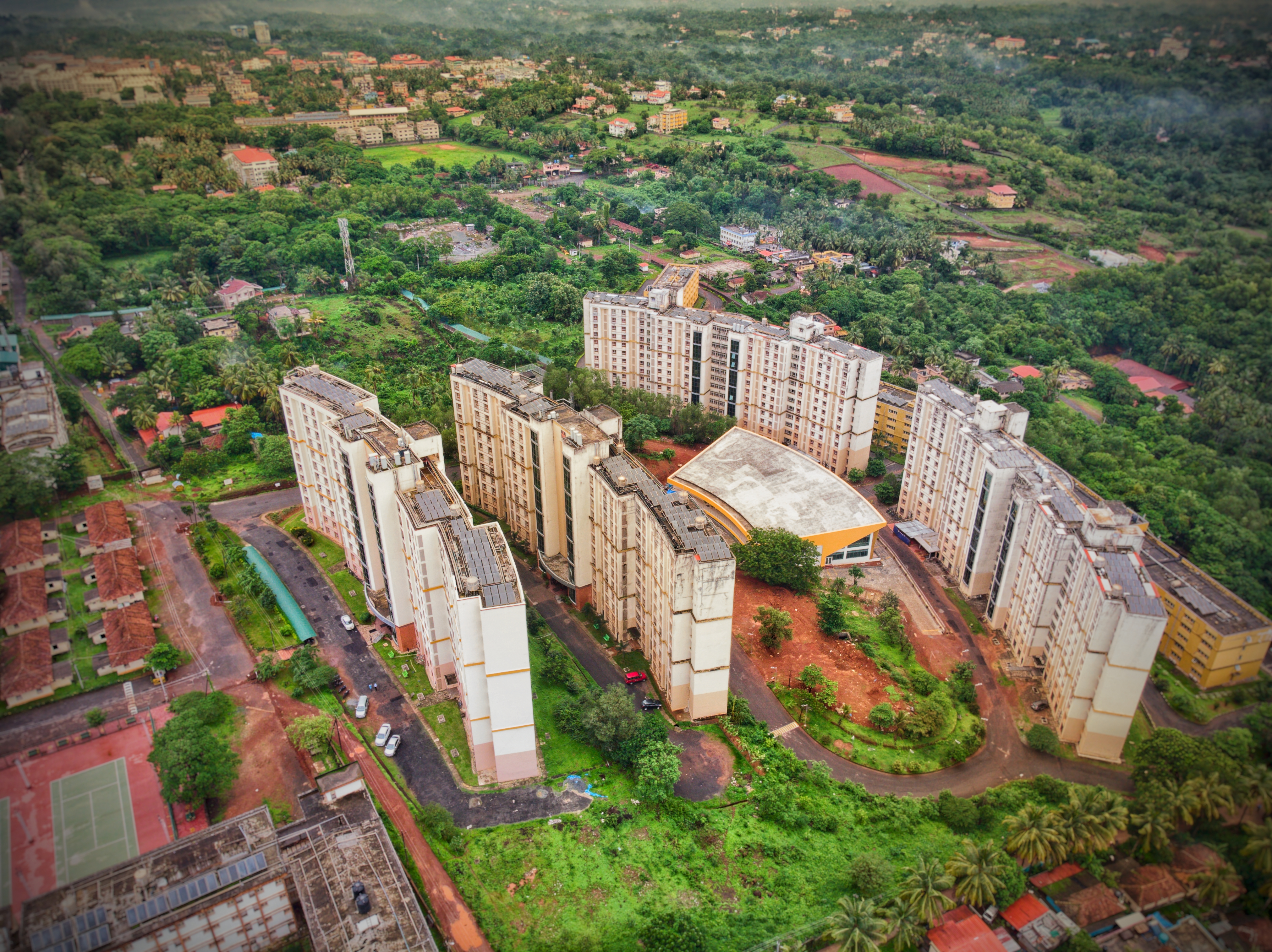 Aerial shot of MIT Hostel for men